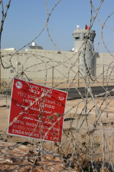 Wall in Qalqilya, Palestine